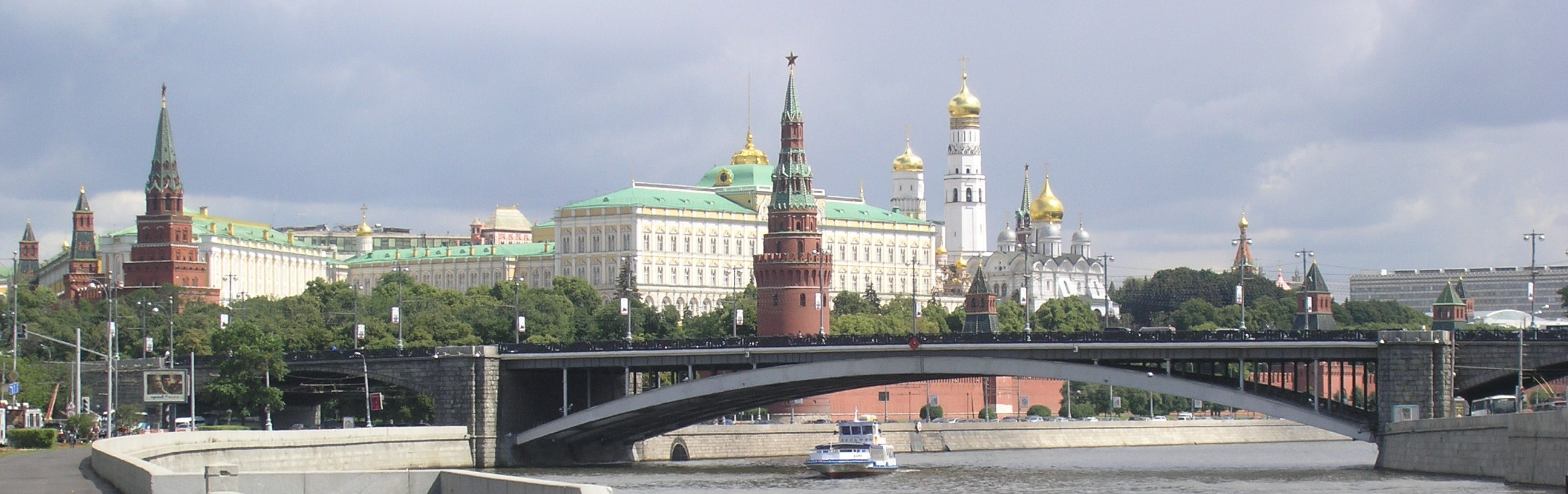 Bolshoy Kamenny Bridge in Moscow